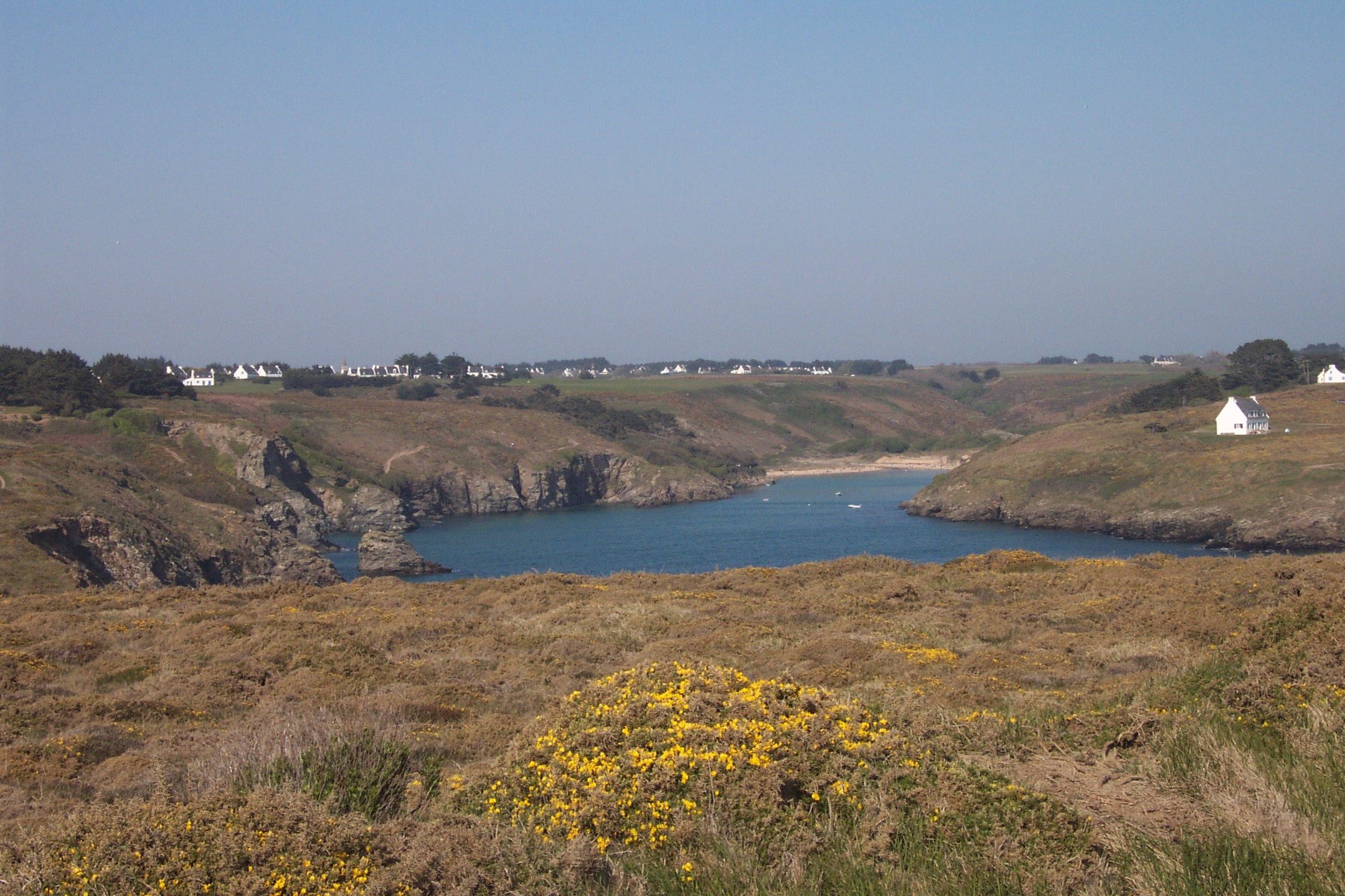 Description =Belle-ile plage de Port Kerel depuis la Pointe de Bornor Source =Photo taken by Remi Jouan Date =Avril 2003 Author =Remi Jouan